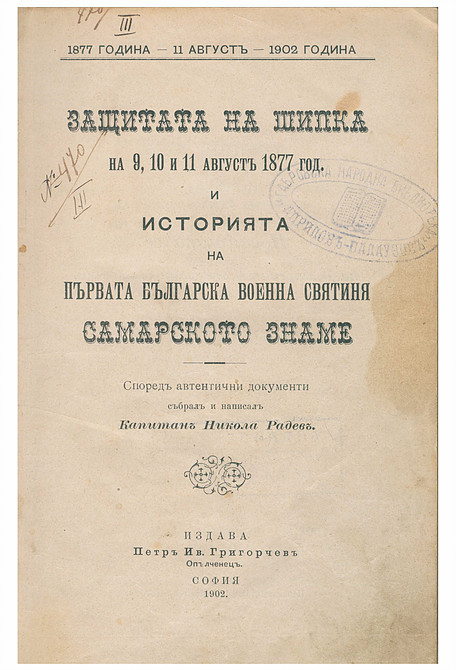 Nikola Radev Shipka 1902